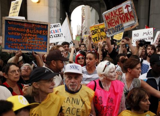 occupy wall street